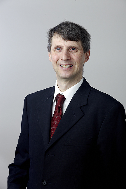 Professor Paul Attfield, Royal Society Fellow elected 2014. Chair, Materials Science at Extreme Conditions, Centre for Science at Extreme Conditions and School of Chemistry, University of Edinburgh Attribution: The Royal Society